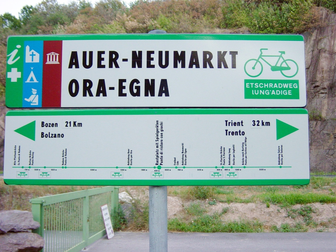 Sign at the Adige cyling route in Italy